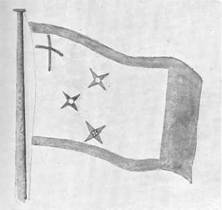 This drawing of the flag hoisted on the proclamation of Matutaera Tāwhiao as Māori King was made at Ngāruawāhia by Lieutenant (afterwards Colonel) H. S. Bates, of the 65th Regiment, in 1863, shortly before the Waikato War began.